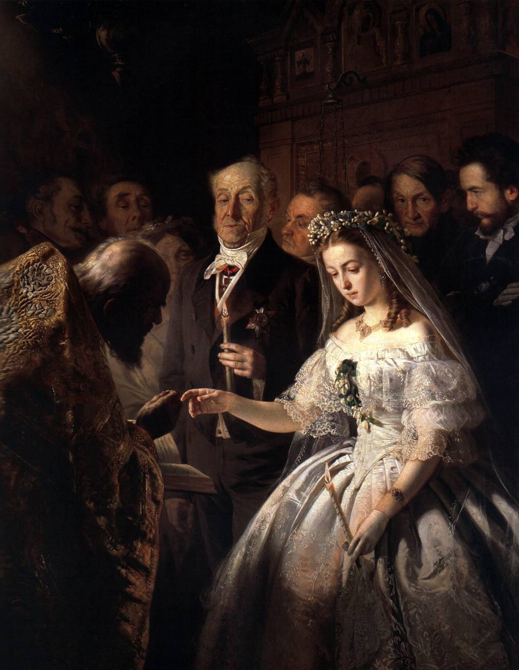 The Arranged Marriage (173 x 136.5 cm The State Tretyakov Gallery)